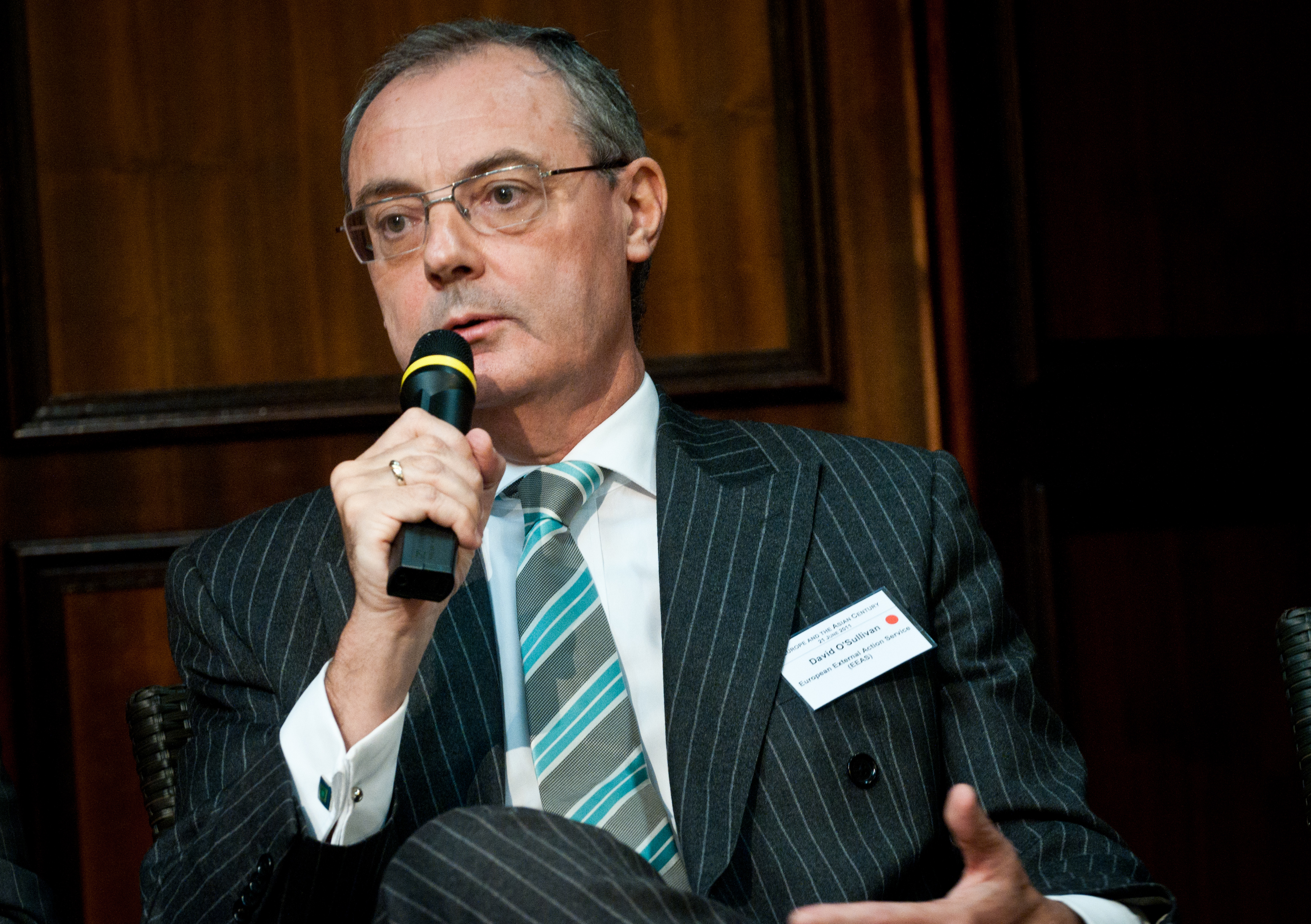 David O'Sullivan, Chief Operating Officer of the European External Action Service (EEAS)